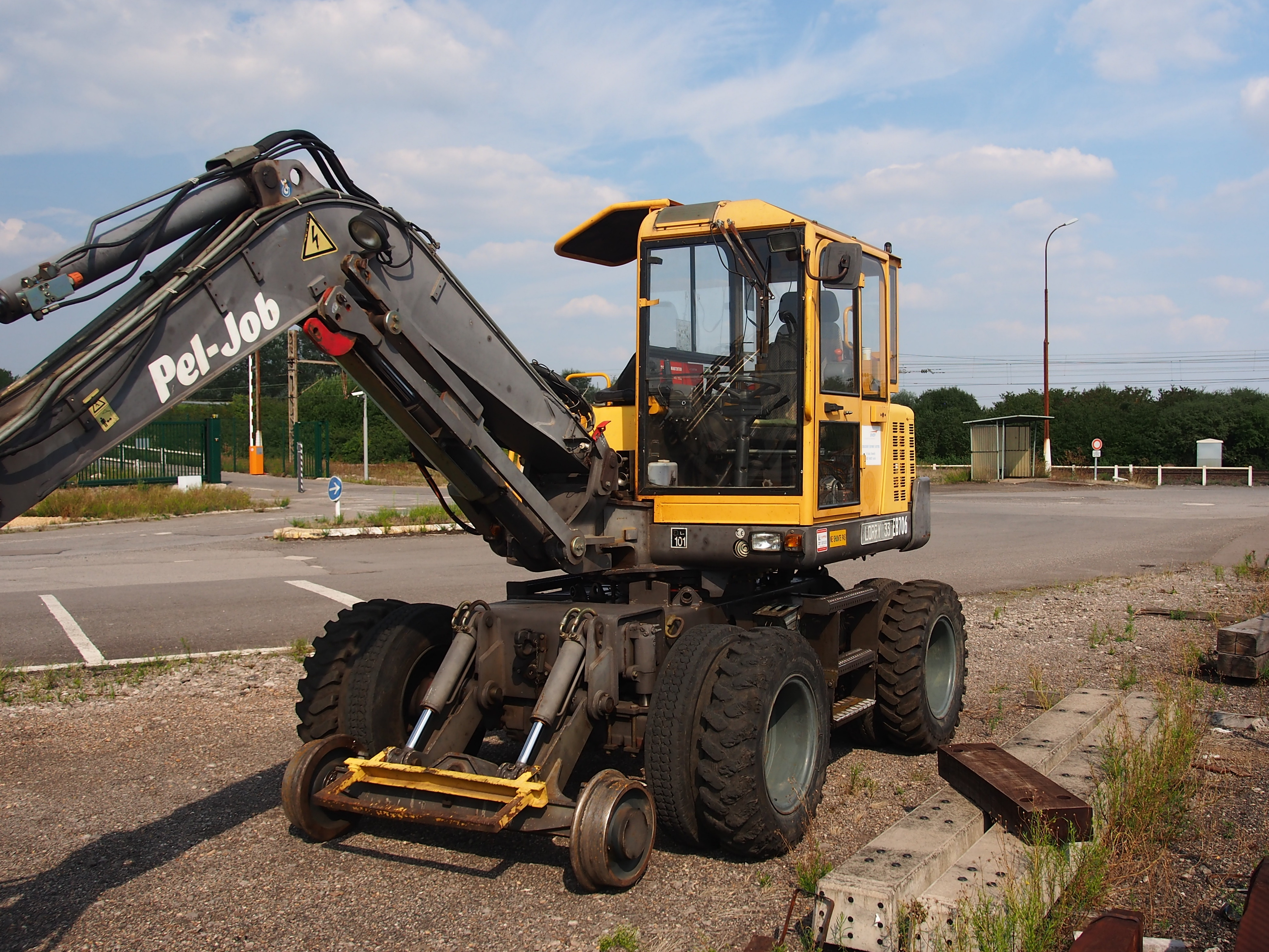 Photographed between Metz and Amneville, France.